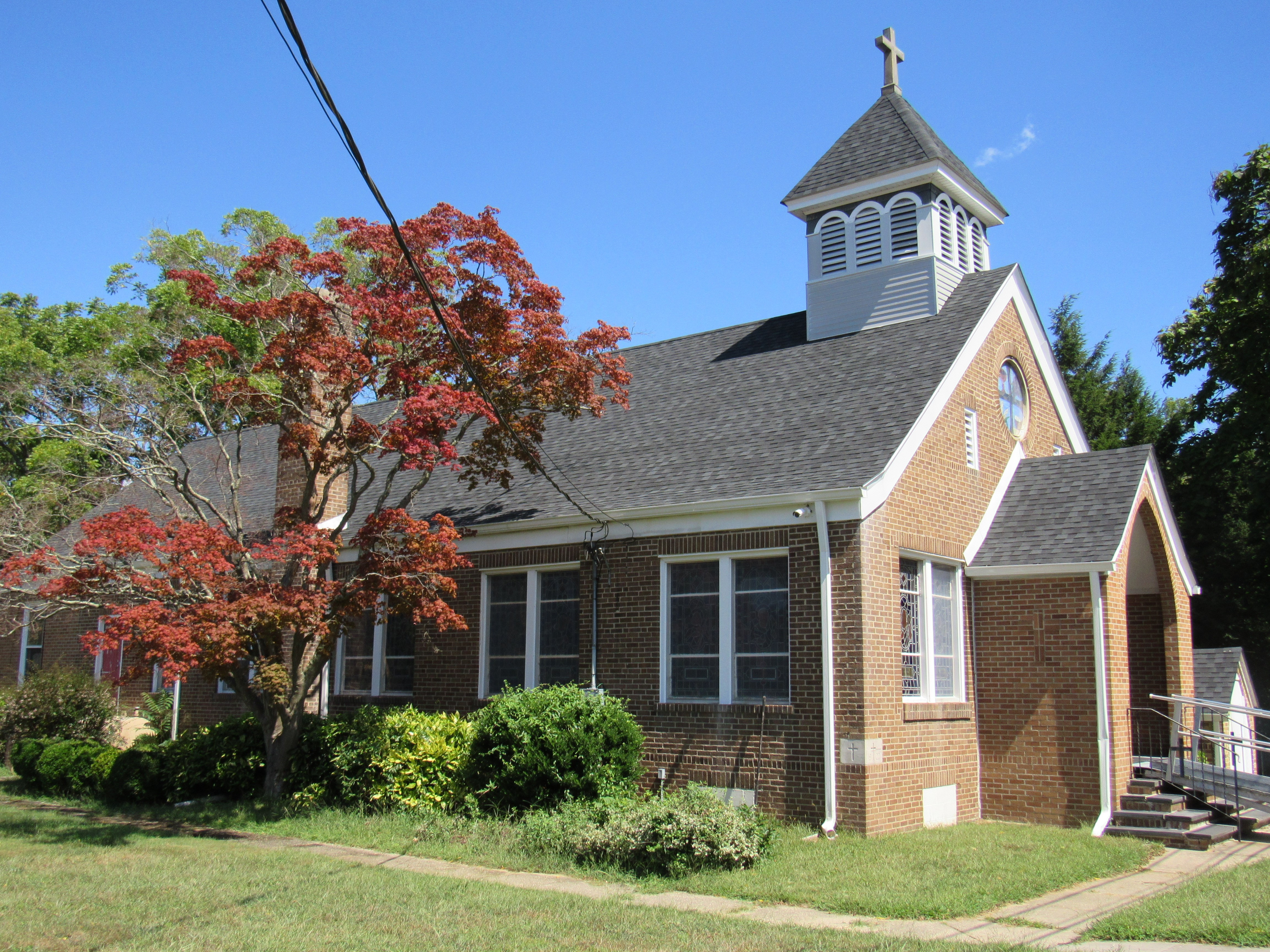 St. Mary's Church, part of Our Lady of the Blessed Sacrament Parish, in Malaga, New Jersey.